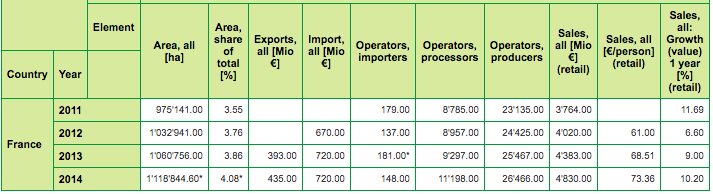 Statistics from France 2011-2014 on amount of land being managed organically.